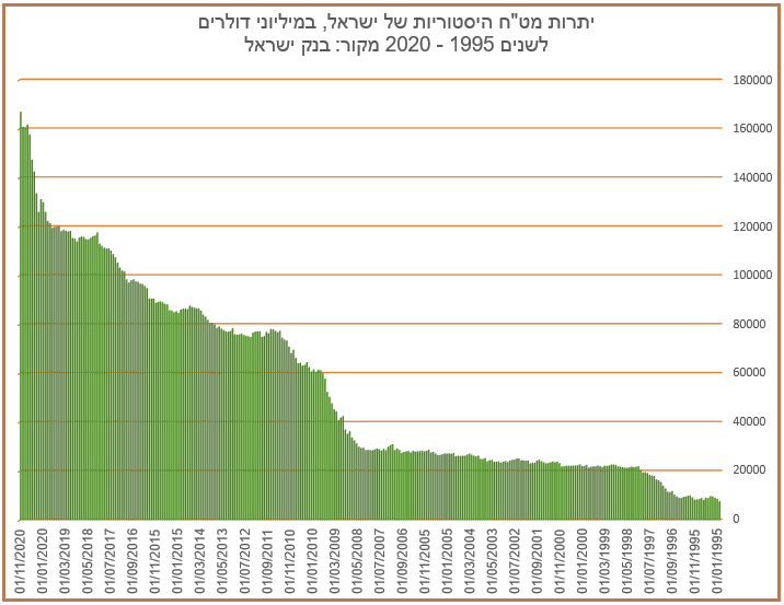 Israel Yearly Foreign Currency Reserves chart